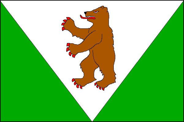 Municipal flag of Brloh village, Český Krumlov District, Czech Republic.